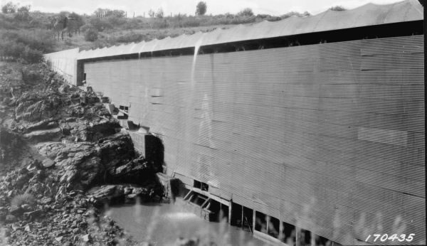 Ashfork-Bainbridge Steel Dam Steel dam in Kaibab National Forest